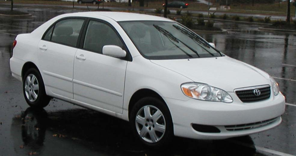 2003-2007 Toyota Corolla photographed in USA.